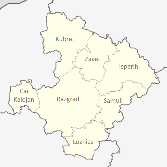 Croatian names on map of Razgrad District (Bulgaria)